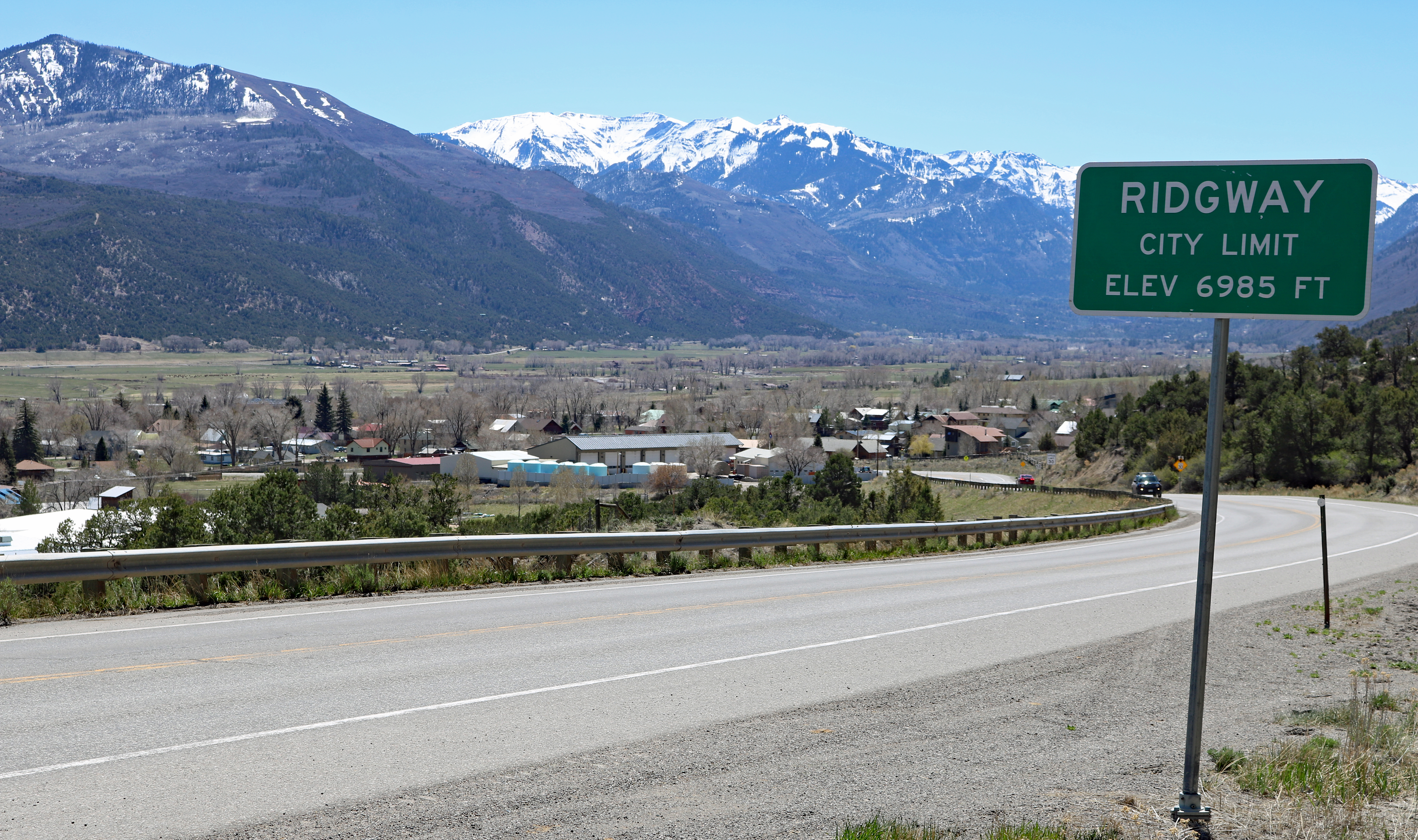 A view of Ridgway, Colorado from Colorado State Highway 62 above the town.